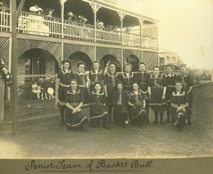 Building and student basketball team of Moreton Bay College, early 1900s.